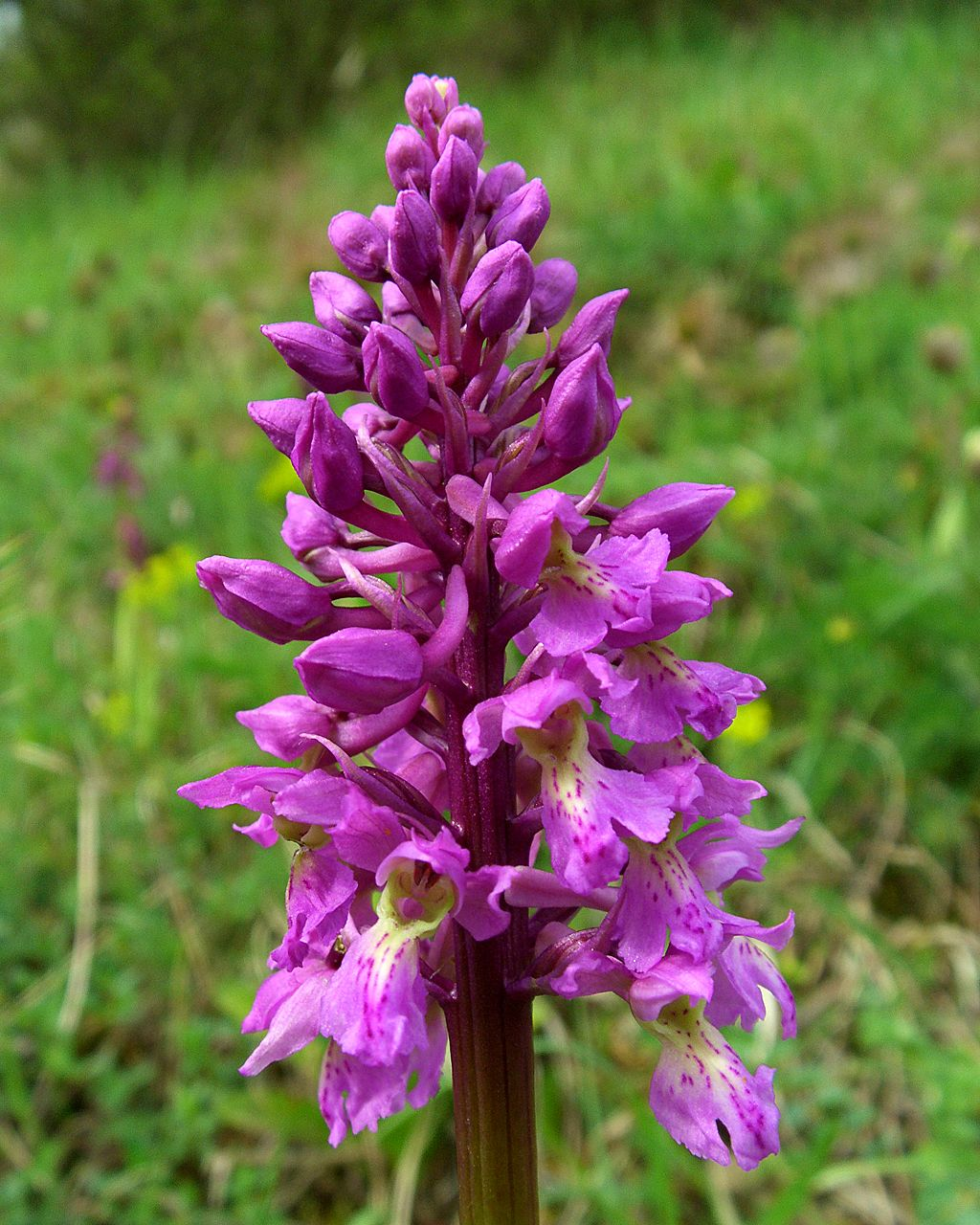 Orchis mascula